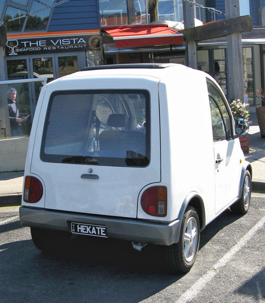 1989 Nissan S-Cargo